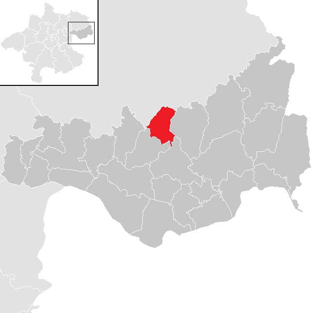 district Perg